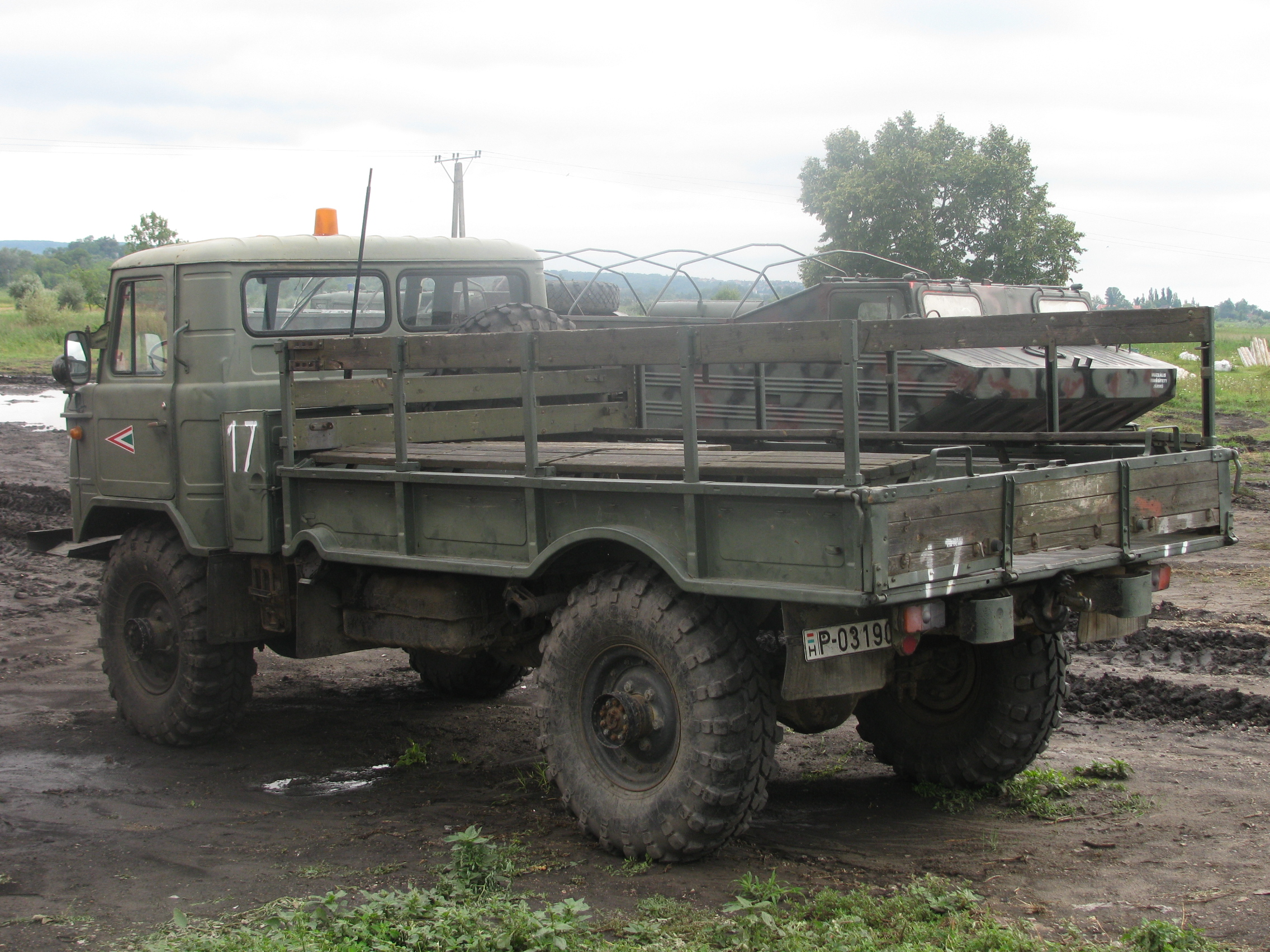 GAZ-66 in Zamárdi, Hungary.